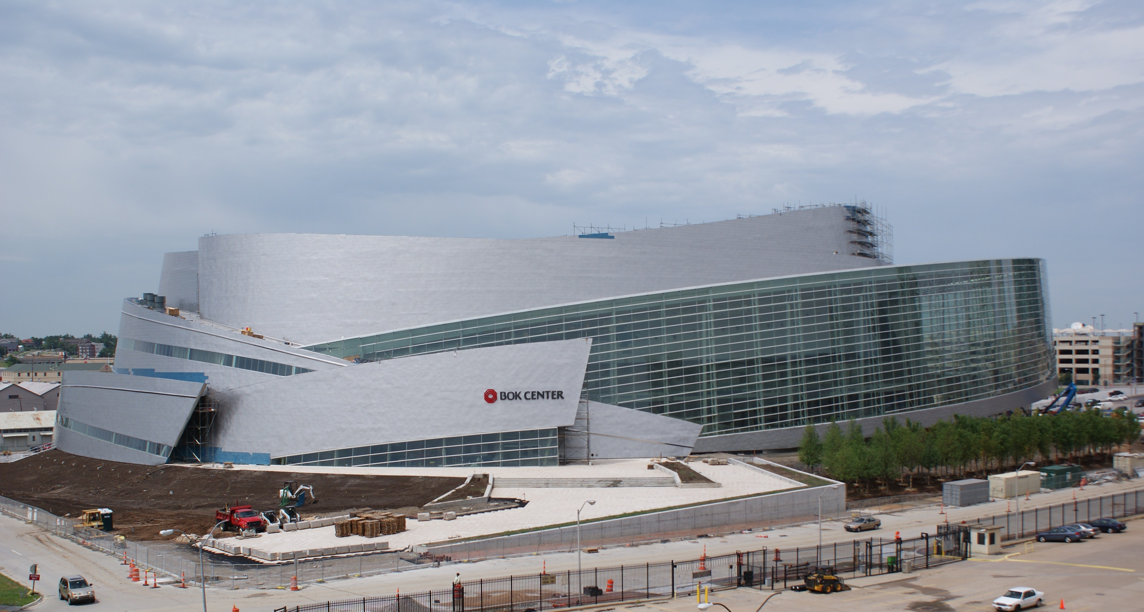 BOK Center on June 28 2008